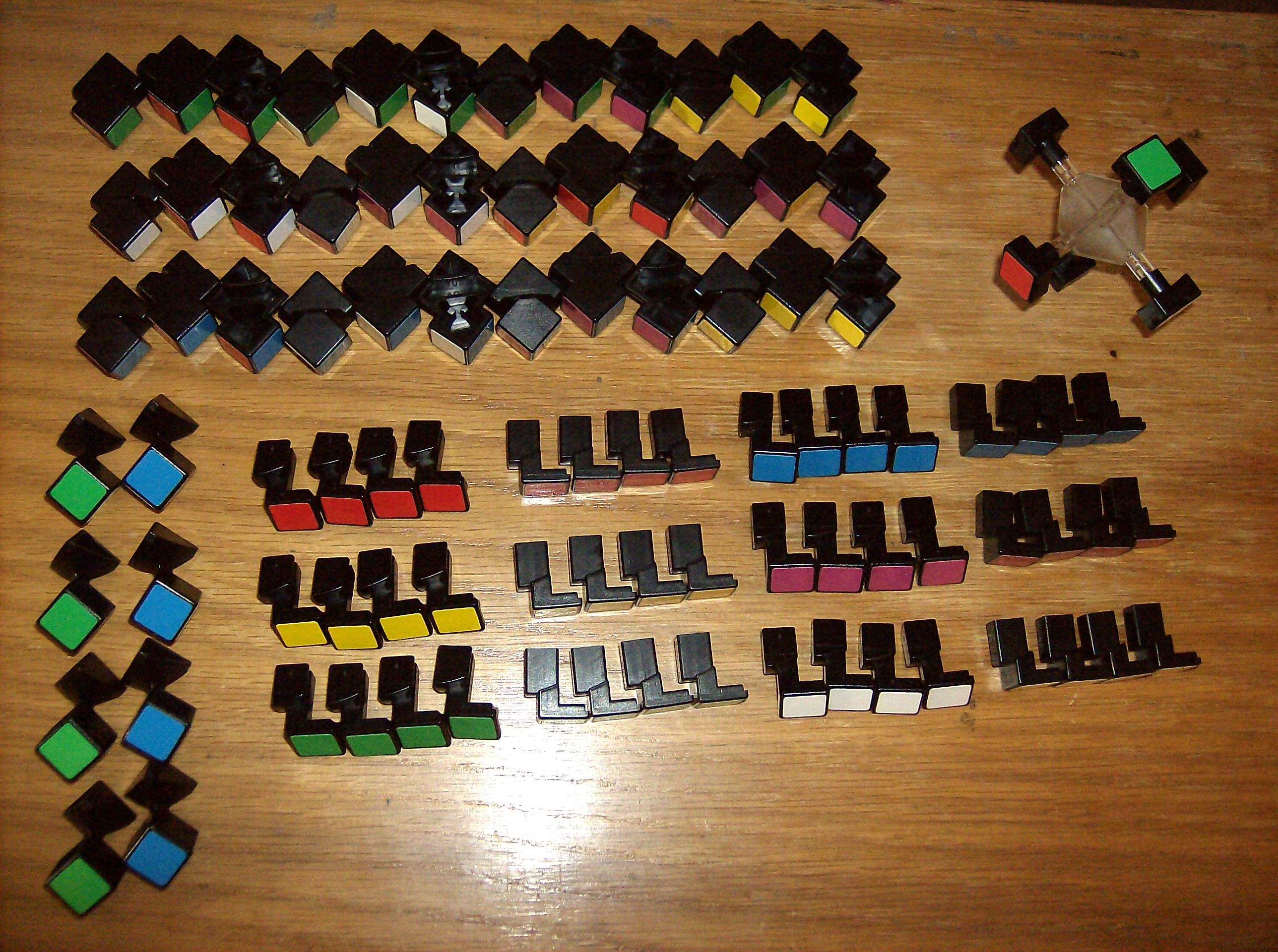 The many components of the Eastsheen version of the Professor's Cube. A comparison of these pieces to the corresponding pieces of the Rubik's and V-Cube versions can be seen here.